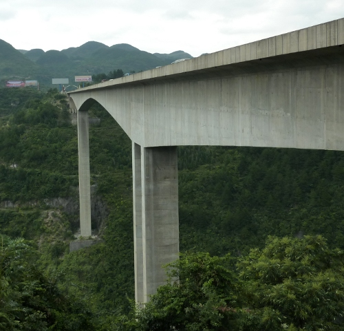 The Liuguanghe Bridge in Hubei Province, China